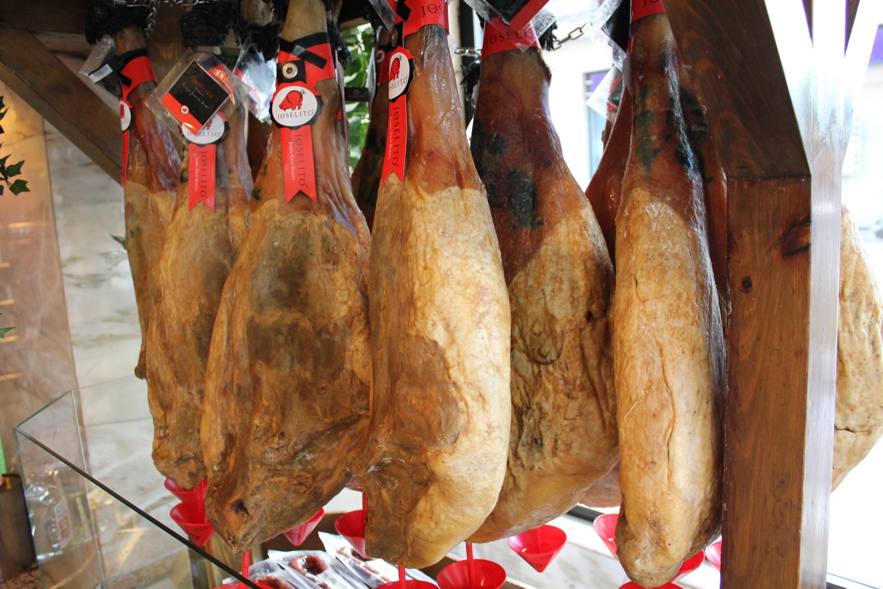 Dry-cured Spanish Ham